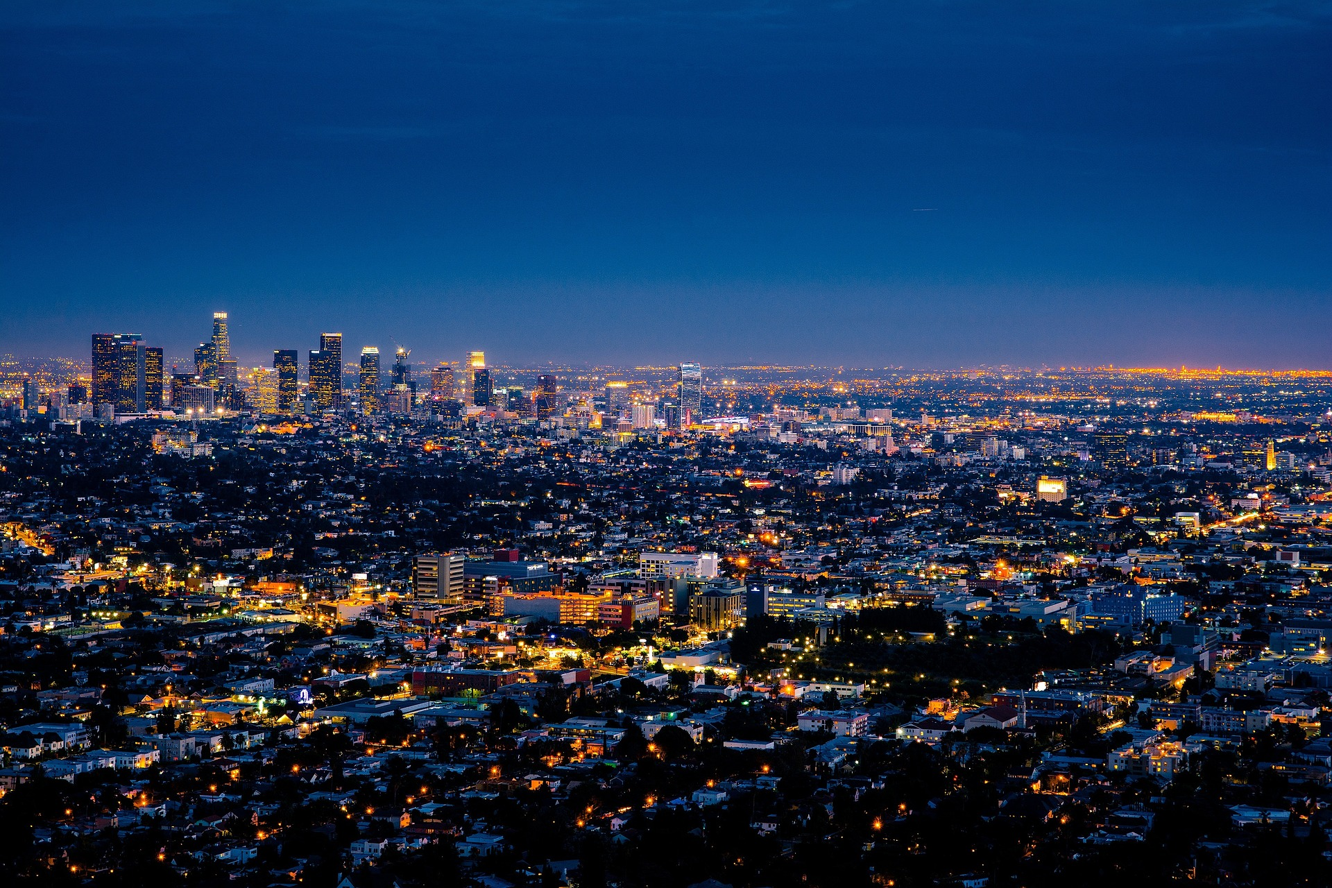 Los Angeles by Night